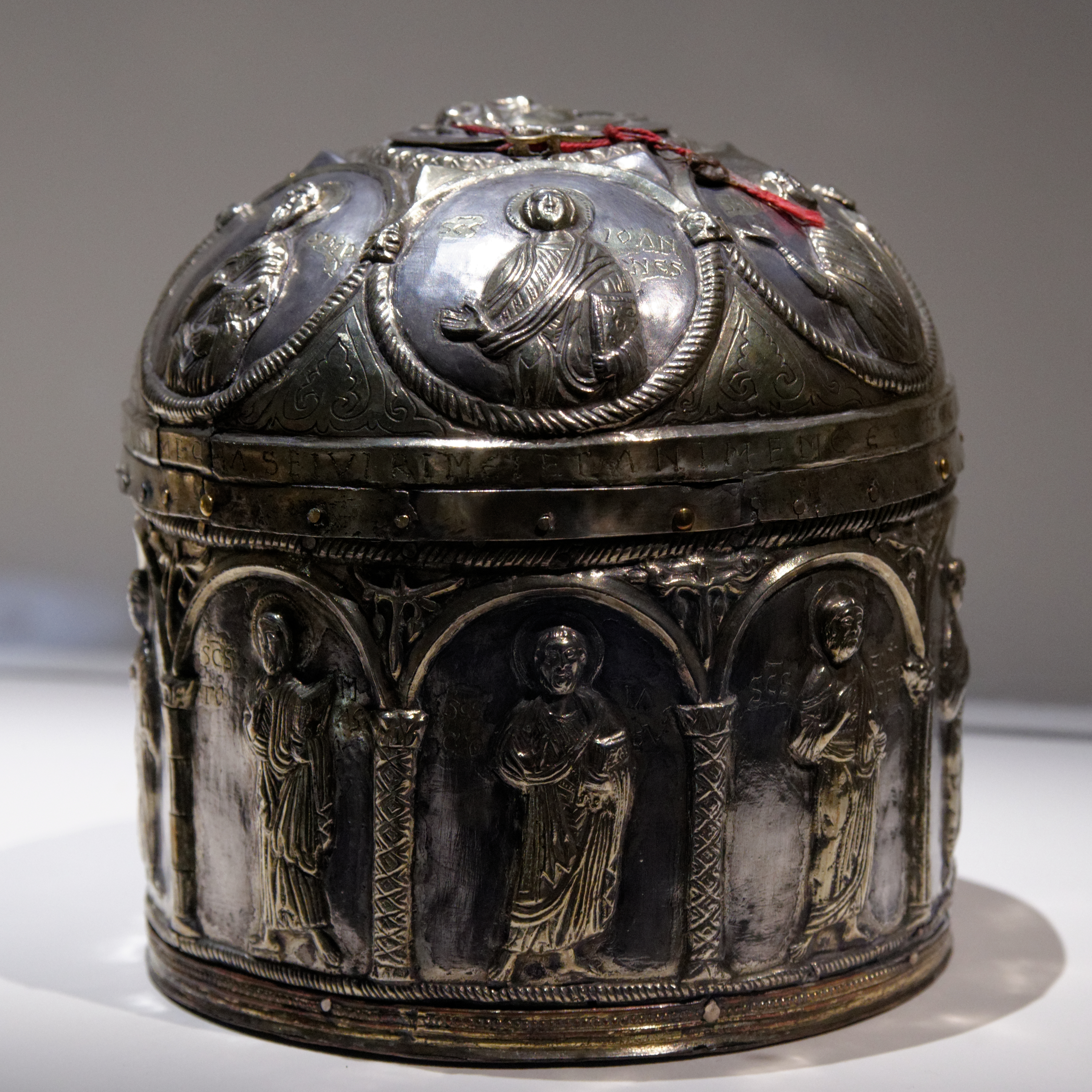 Reliquary with the head of St James Intercisus.